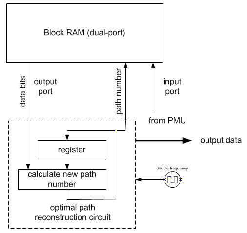 A traceback unit for hardware viterbi decoder